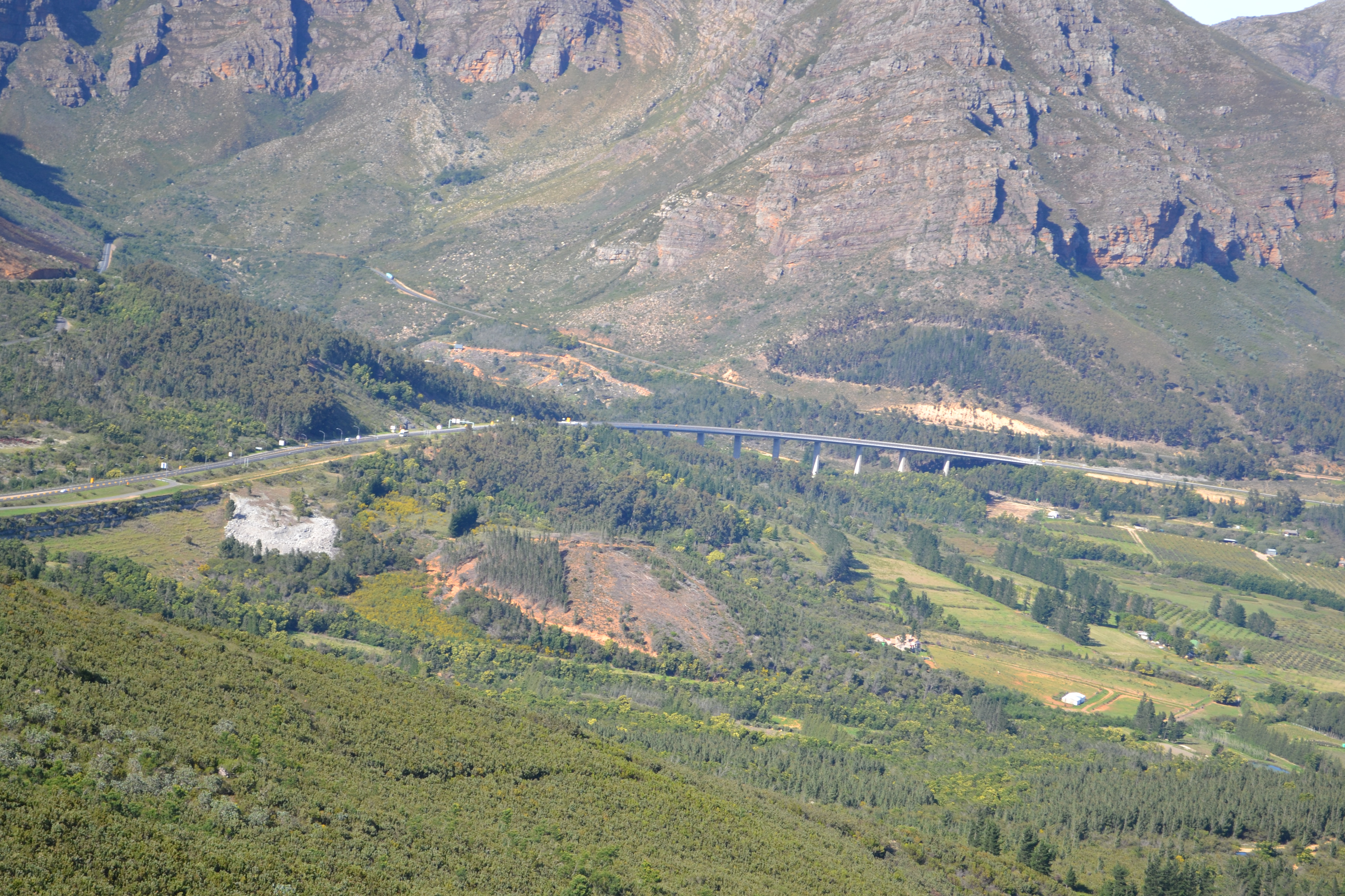 Western Cape.